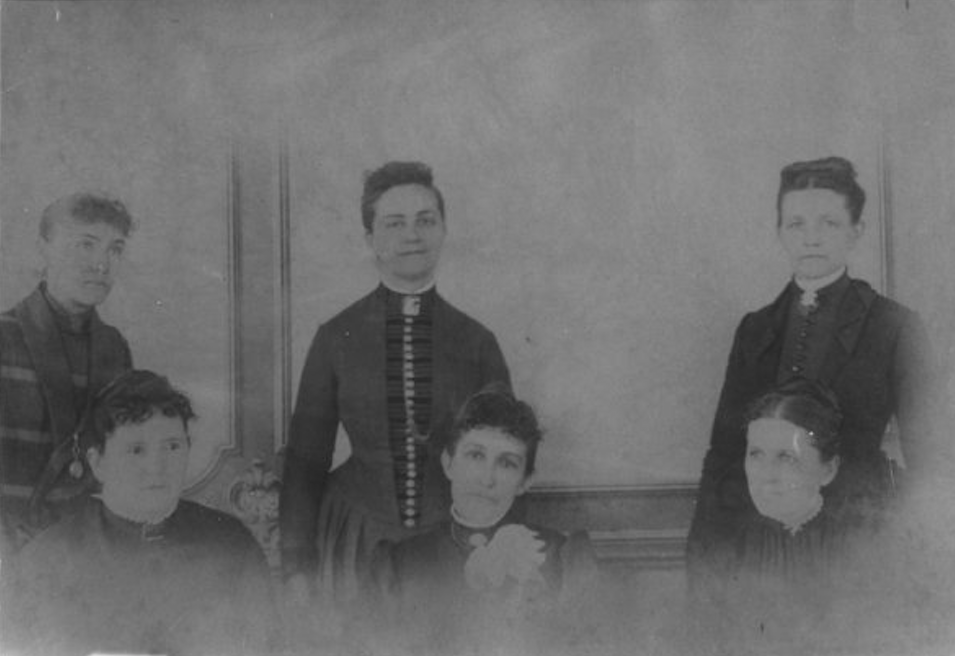 Oskaloosa 1st-all-woman-city-government-in-kansas in 1888